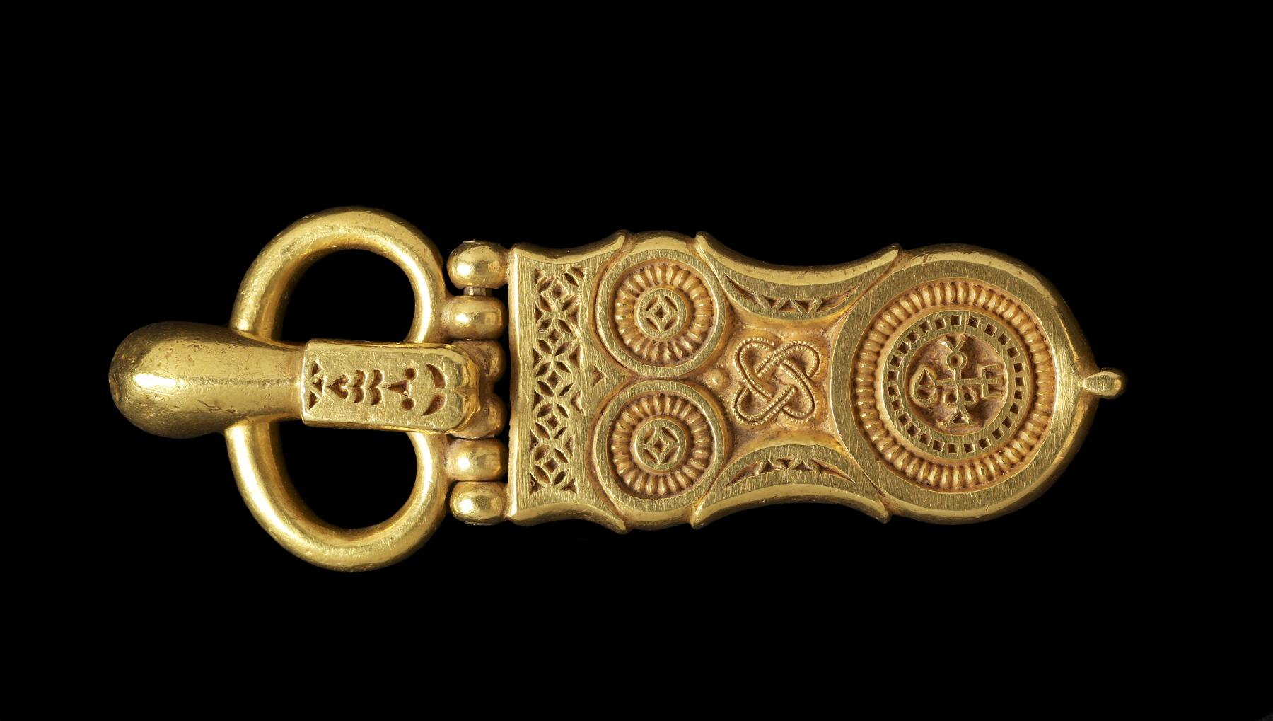 Gold belt buckles were usually personallized with the owner's name, like the small monogram of Theodore seen on this luxurious example. Belt buckles were in use in the Byzantine Empire by the 5th century, when the Roman toga began to be replaced by trousers as part of the cultural influence of the northern migratory peoples.